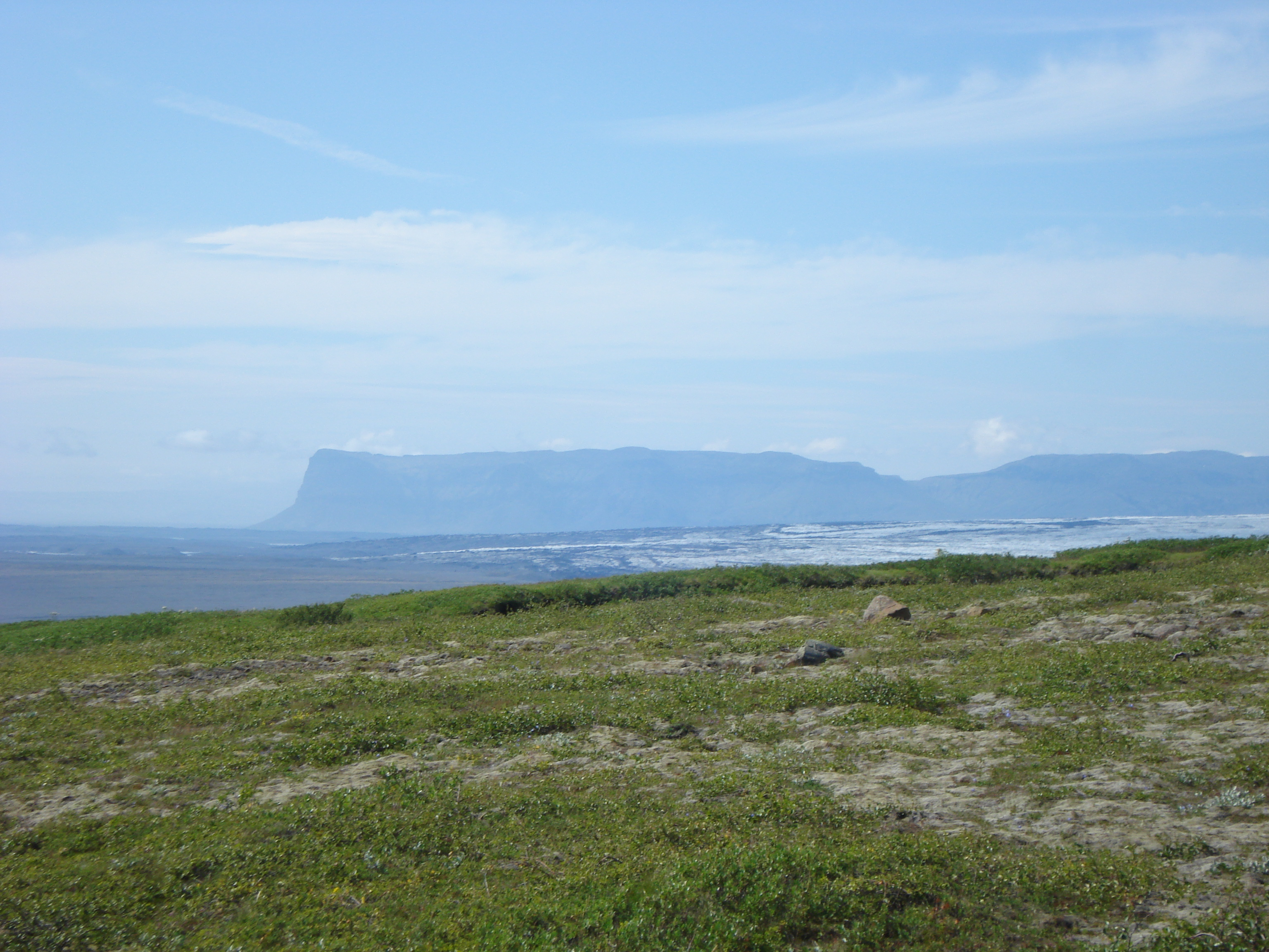 Looking from the Skaftafell National Park over to the Skeiðarárjökull with the Lómagnúpur (767 meter) in the background. (Iceland)